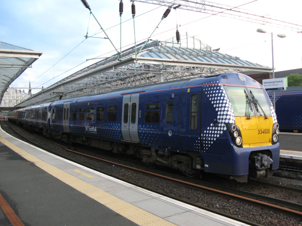 334020 stands at Helensburgh Central station, ready to start its journey across Scotland to Edinburgh.